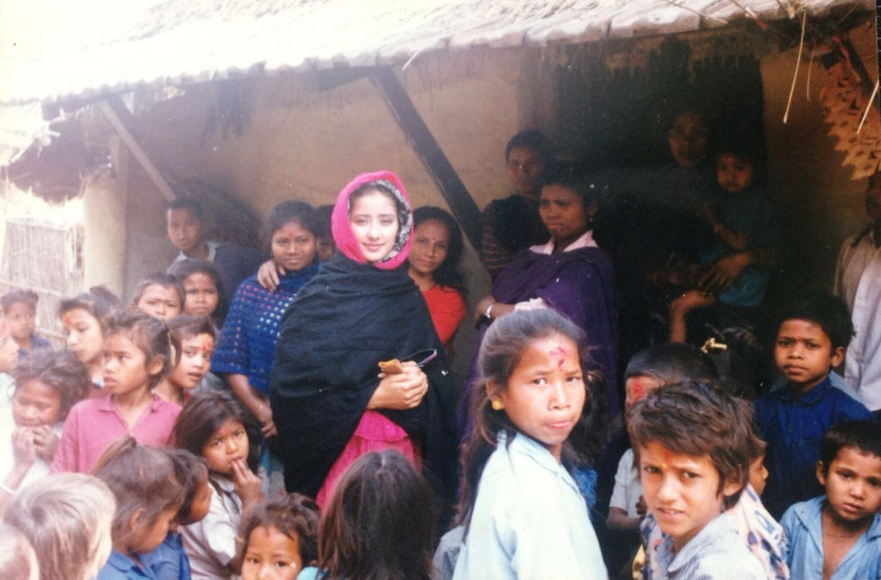 Manisha Koirala is seen in a Nepal village as UNFPA Ambassador.